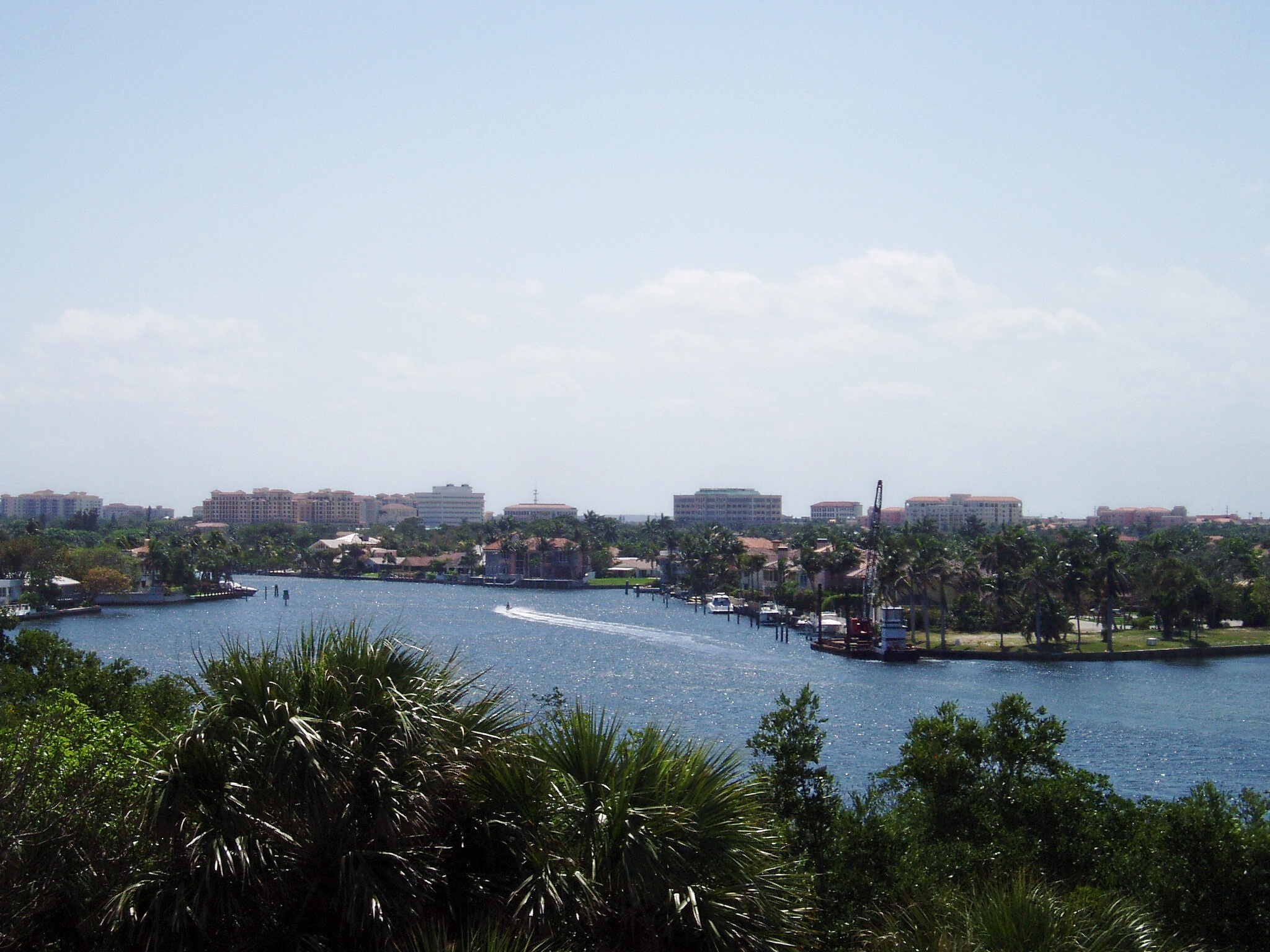 The skyline of Downtown Boca Raton, Florida from the Gumbo Limbo Environmental Complex's observation tower. Looking northwest, with the Intracoastal Waterway in the foreground.